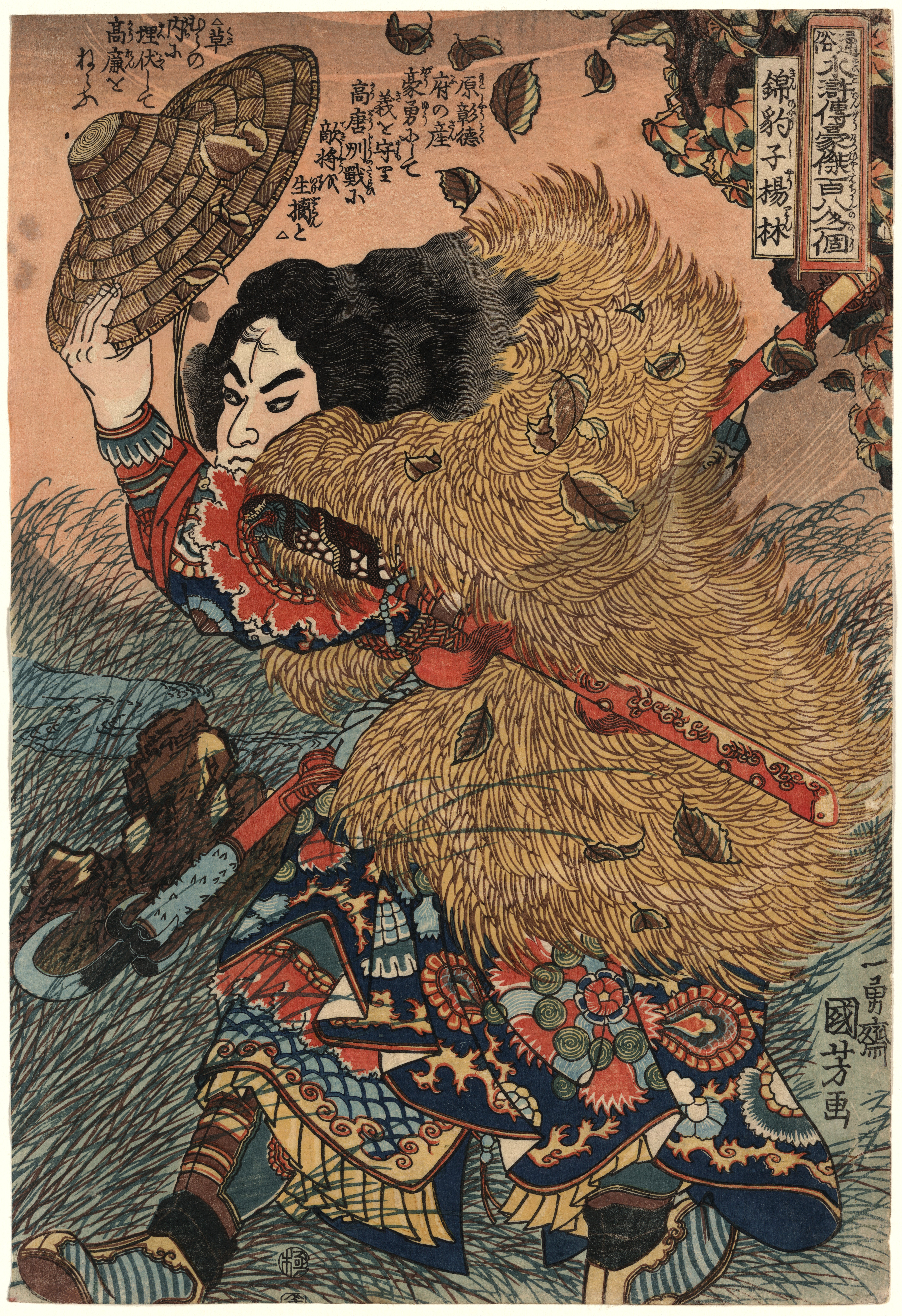 Kinhyōshi yōrin (Yang Lin), hero of the Suikoden (Water Margin). 1 print : woodcut, color ; 36 x 24.7 cm. Format: Vertical Oban Nishikie. From the series: Tsūzoku suikoden gōketsu hyakuhachinin no hitori : The popular edition of Suikoden: one of 108 brave warriors.